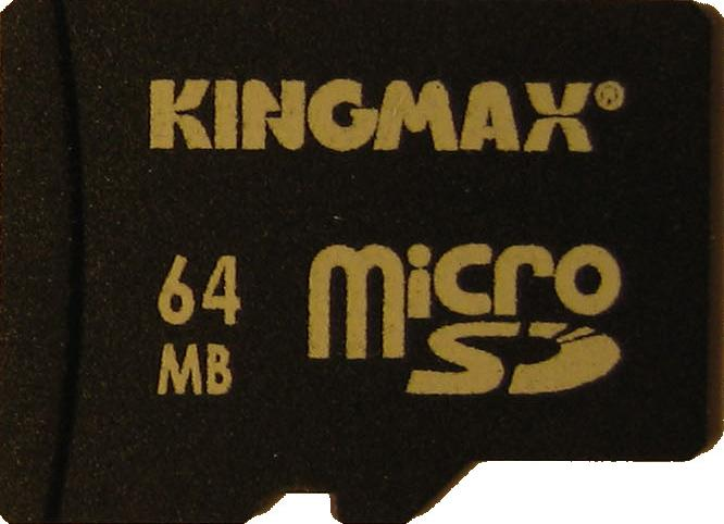 Kingmax 64 Megabyte microSD card.